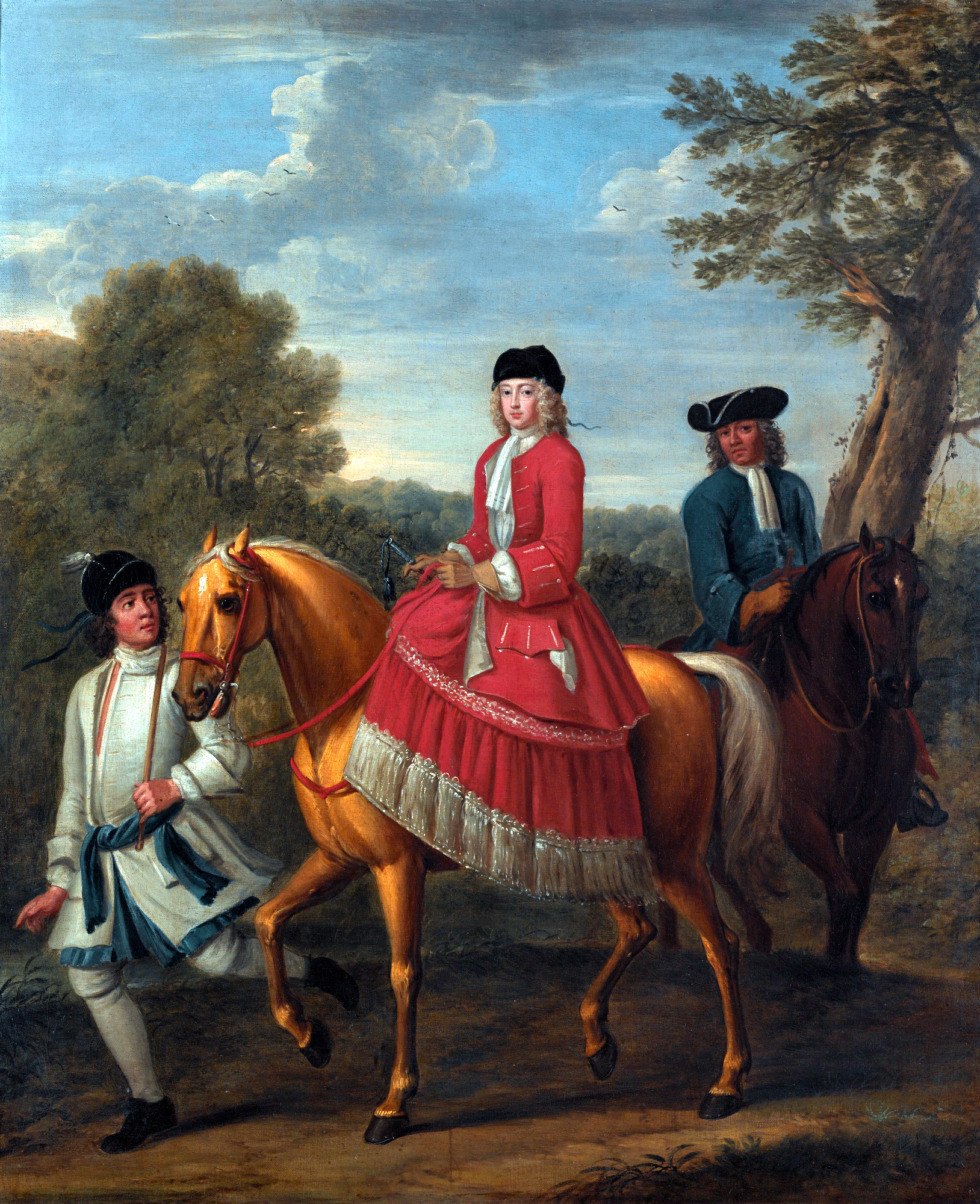 Lady Henrietta Harley, Countess of Oxford and Countess Mortimer (1694-1755) led by a groom with a hunt attendant